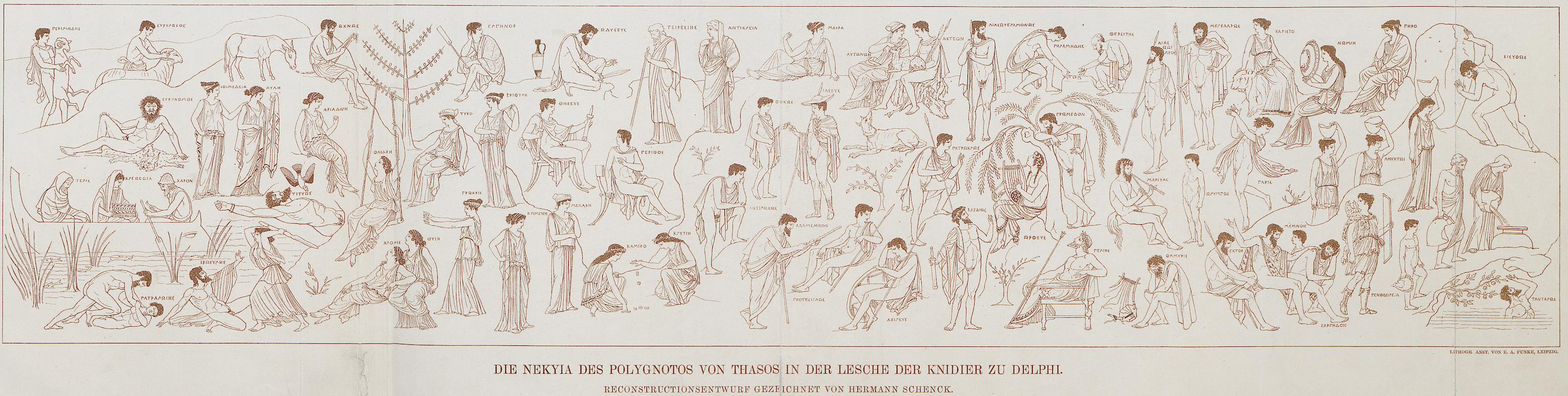 reconstruction of the ancient painting "Nekyia" by Polygnotus.